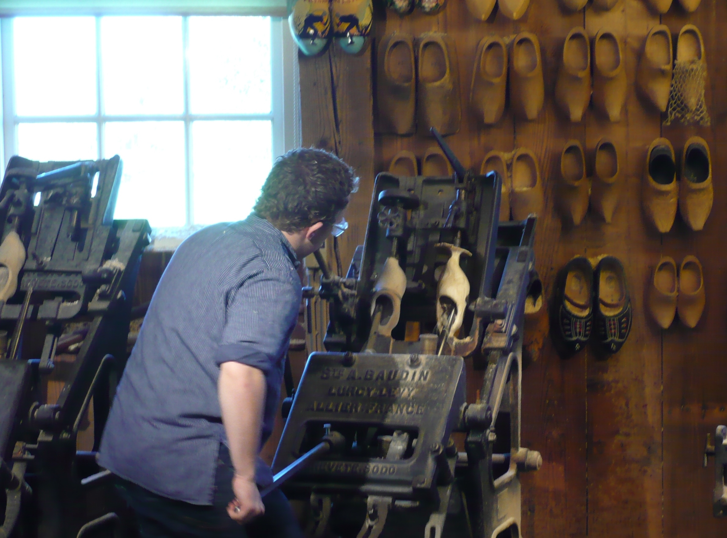 This picture shows a man making traditional Dutch Clogs in the village Zaanse Schans (the Netherlands)